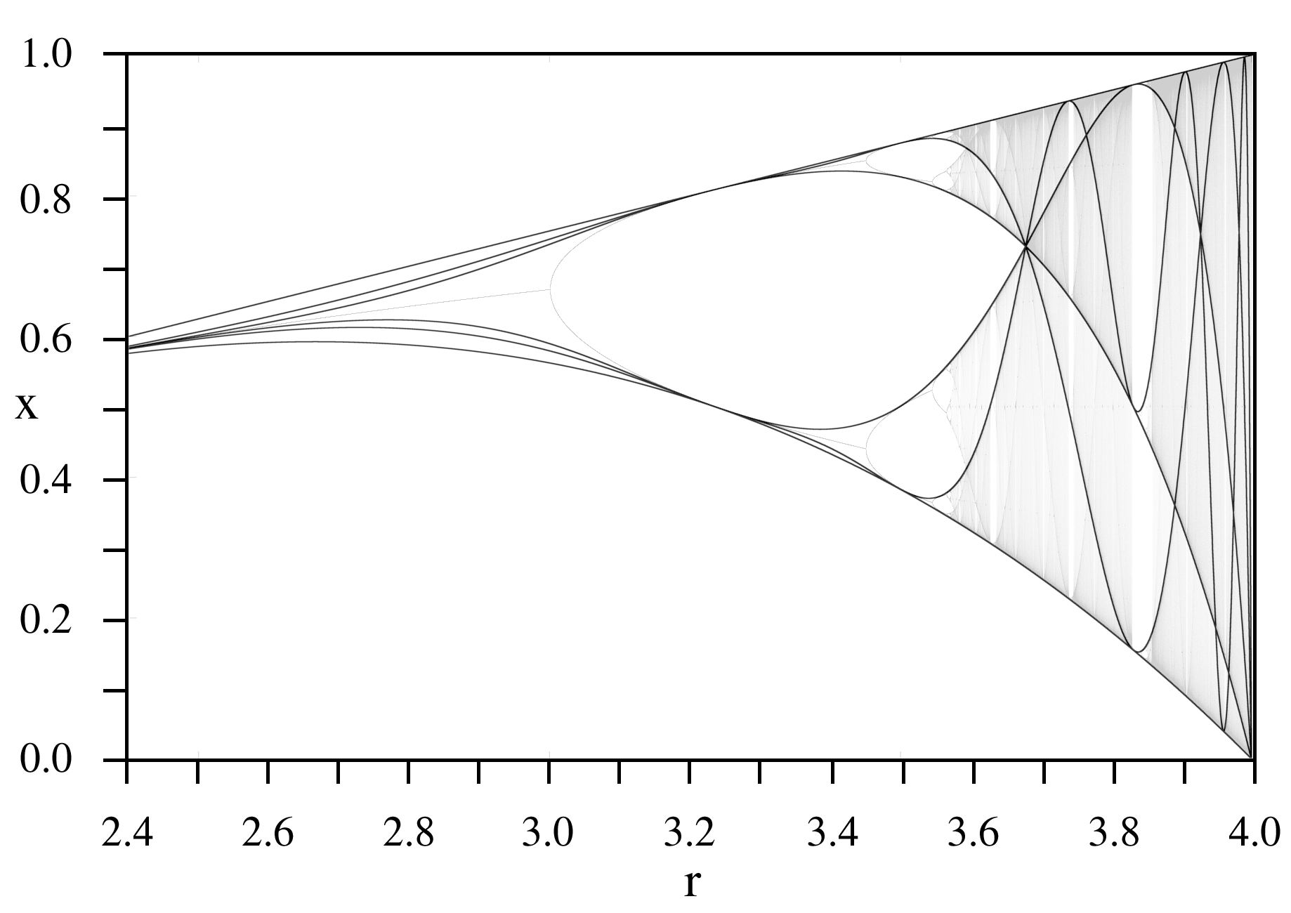 This picture is derived from File:LogisticMap BifurcationDiagram.png by PAR. It shows the first iterates x n + 1 = r x n ( 1 − x n ) {\displaystyle x_{n+1}=rx_{n}(1-x_{n})\,} for x = 0.5 and n=0,... 5, while leaving the original attractor slightly visible in the background. At x=0.5, the derivative of the logistic function vanishes, which is what "attracts" non-periodic points, thereby producing the typical shadows the attractor features.